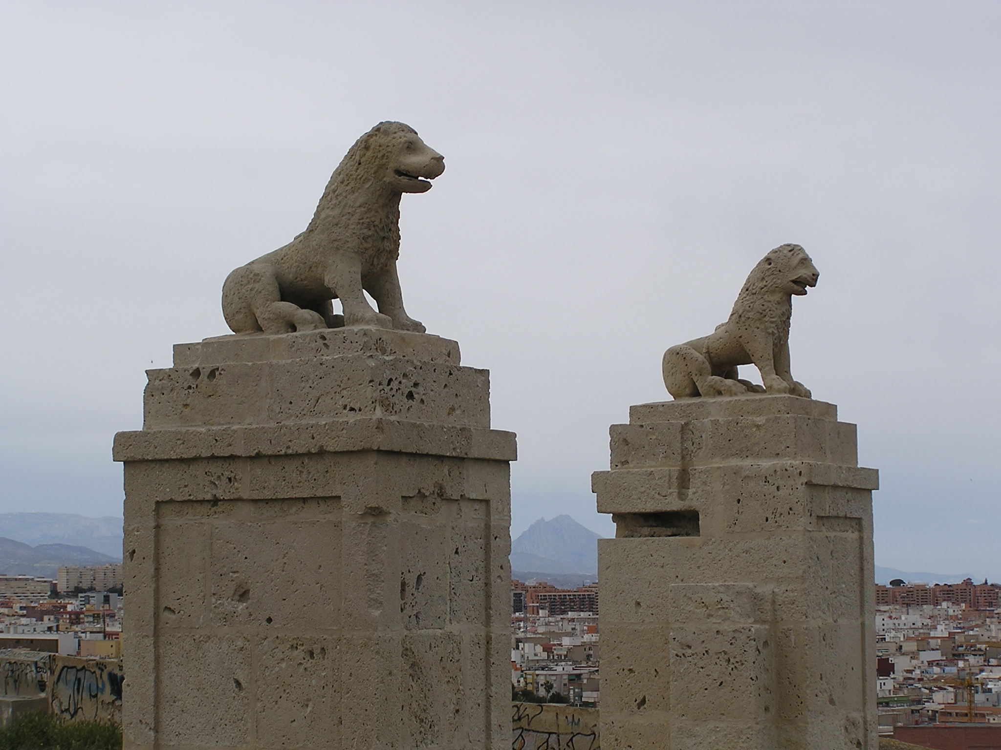 Alicante, Entrance to the Castle of San Fernando